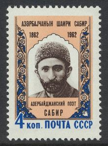 Stamp of USSR